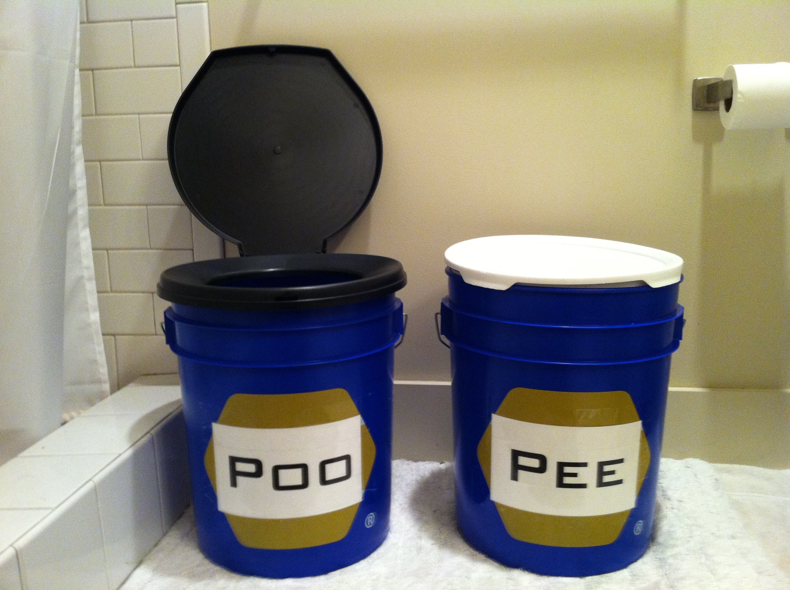 This bucket toilet is a two bucket urine diverting system: one for urine, one for feces.